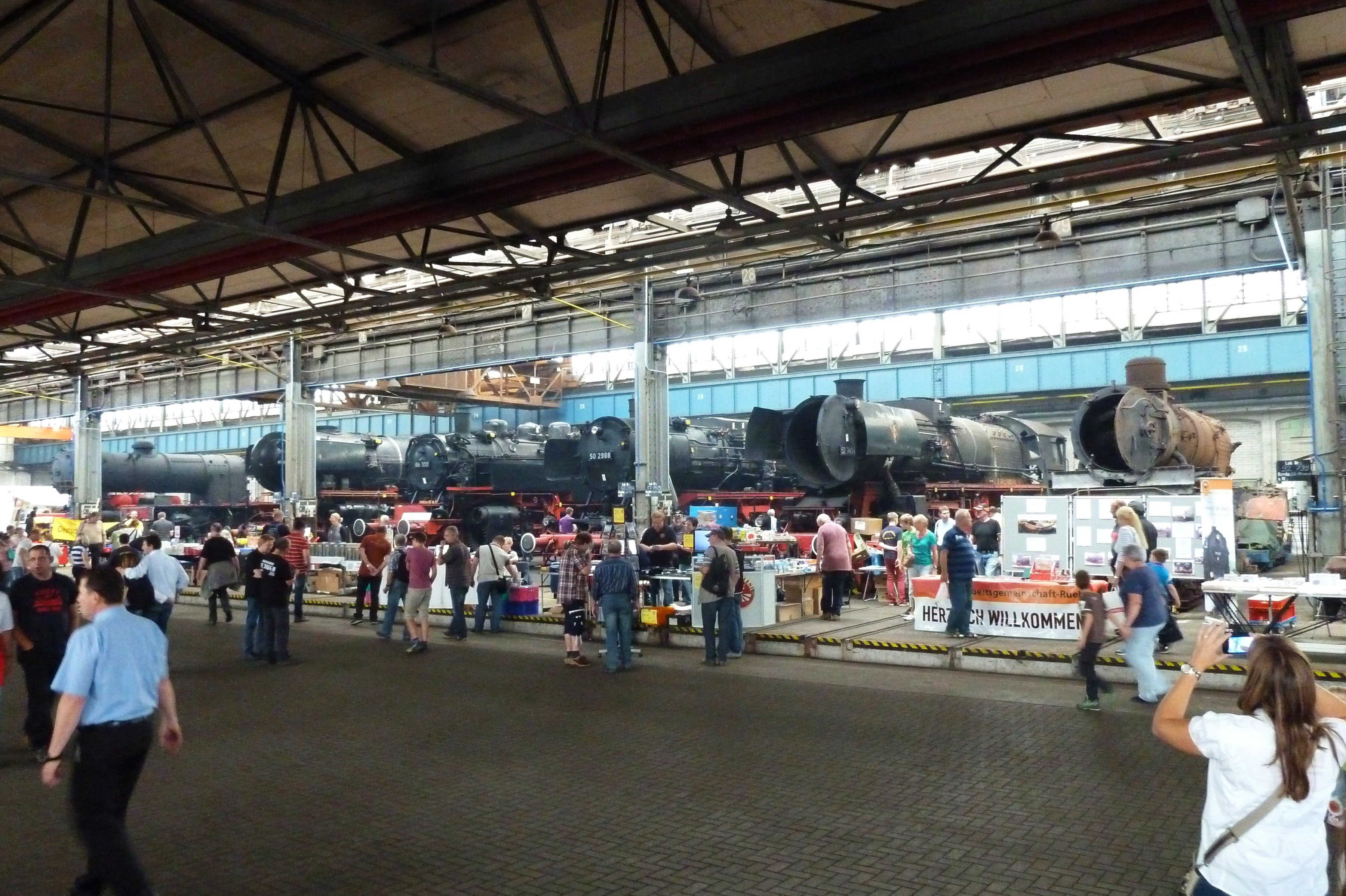 Steam festival in Meiningen, Germany